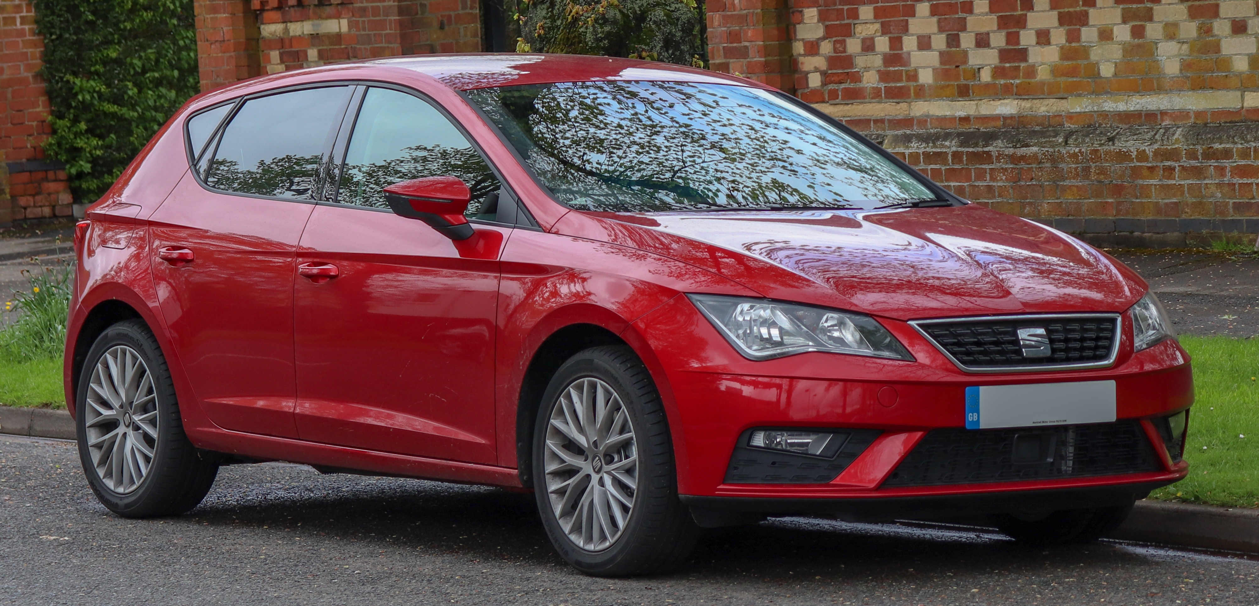 2018 SEAT Leon SE Dynamic Technology facelift 1.6 Front Taken in Leamington Spa